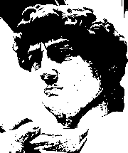 This image is part of a series of images on dithering algorithms. The whole series, as well as documentary information can be viewed at User:Gerbrant/Dithering algorithms.